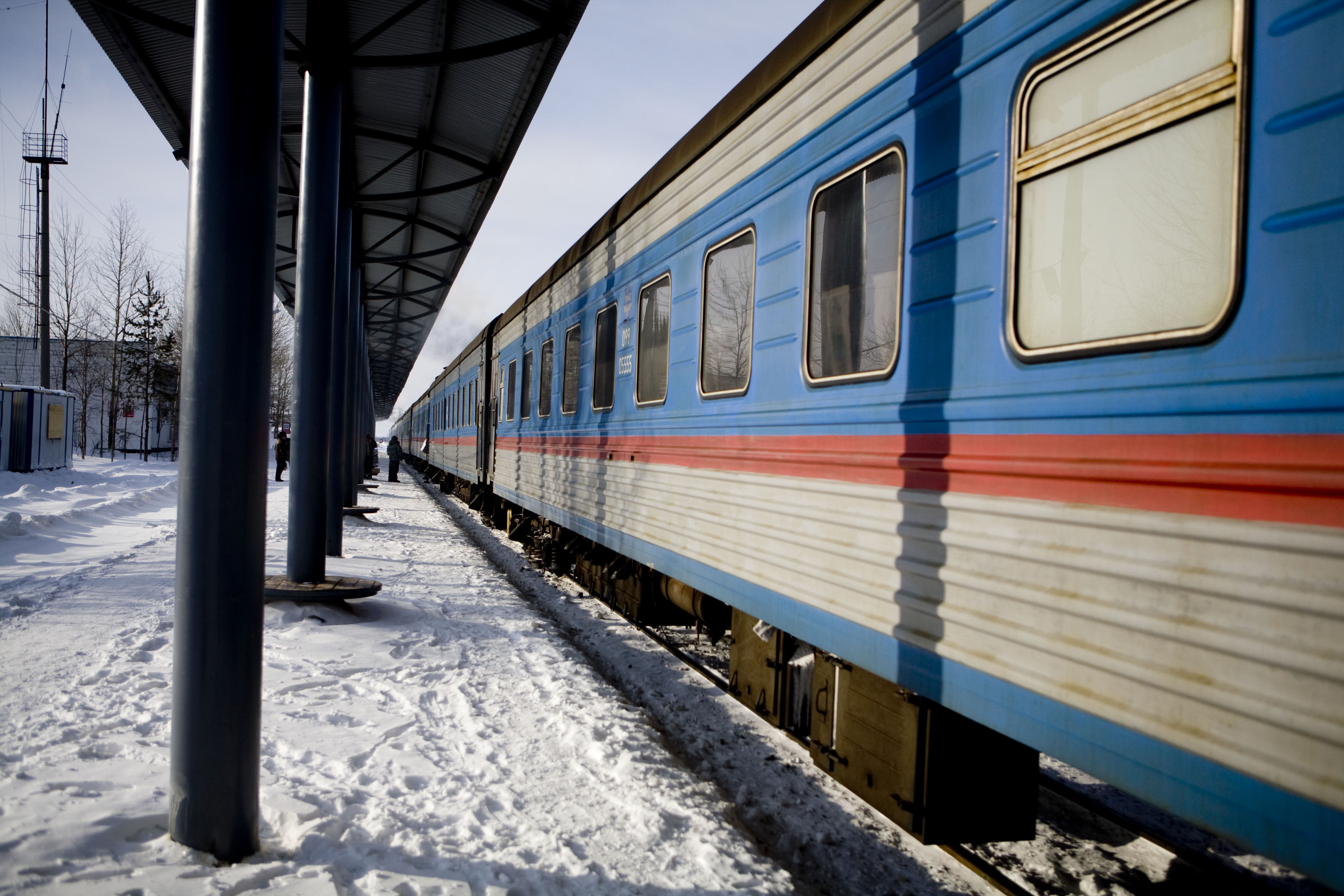 Photo by Brian Tibbets, ( February 2009